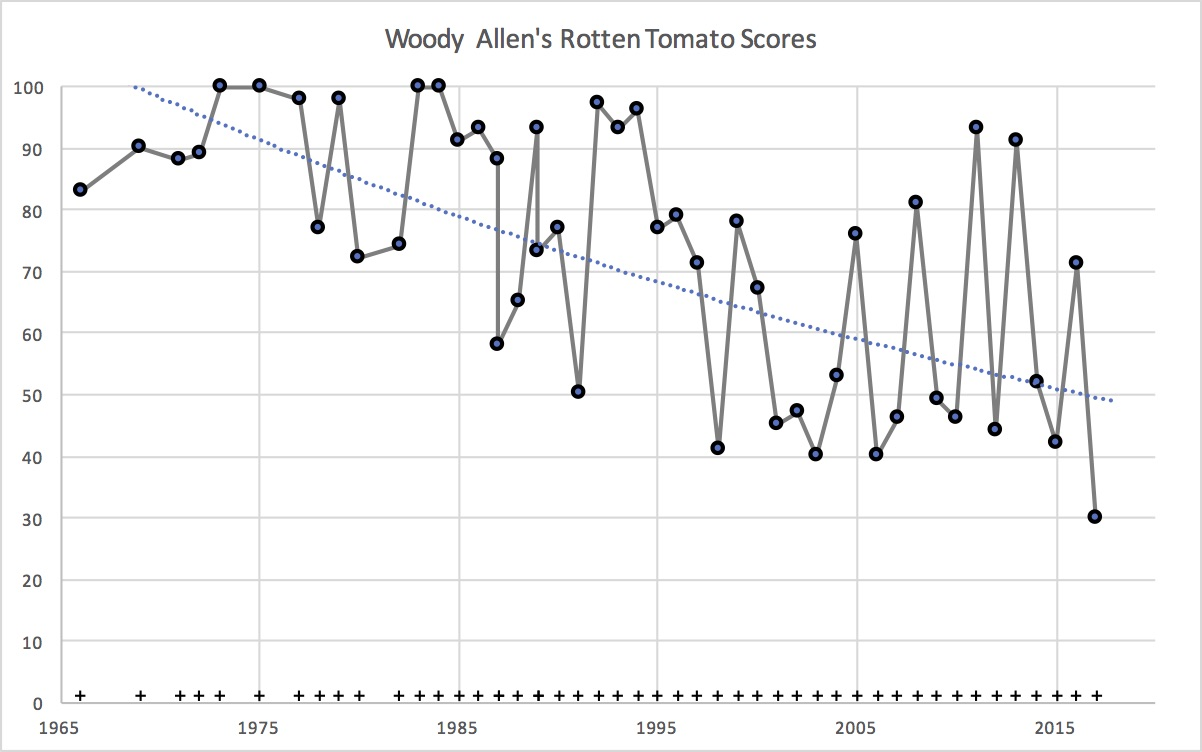 Woody Allen Movies by year and Rotten Tomato Score. There is also a trend-line.